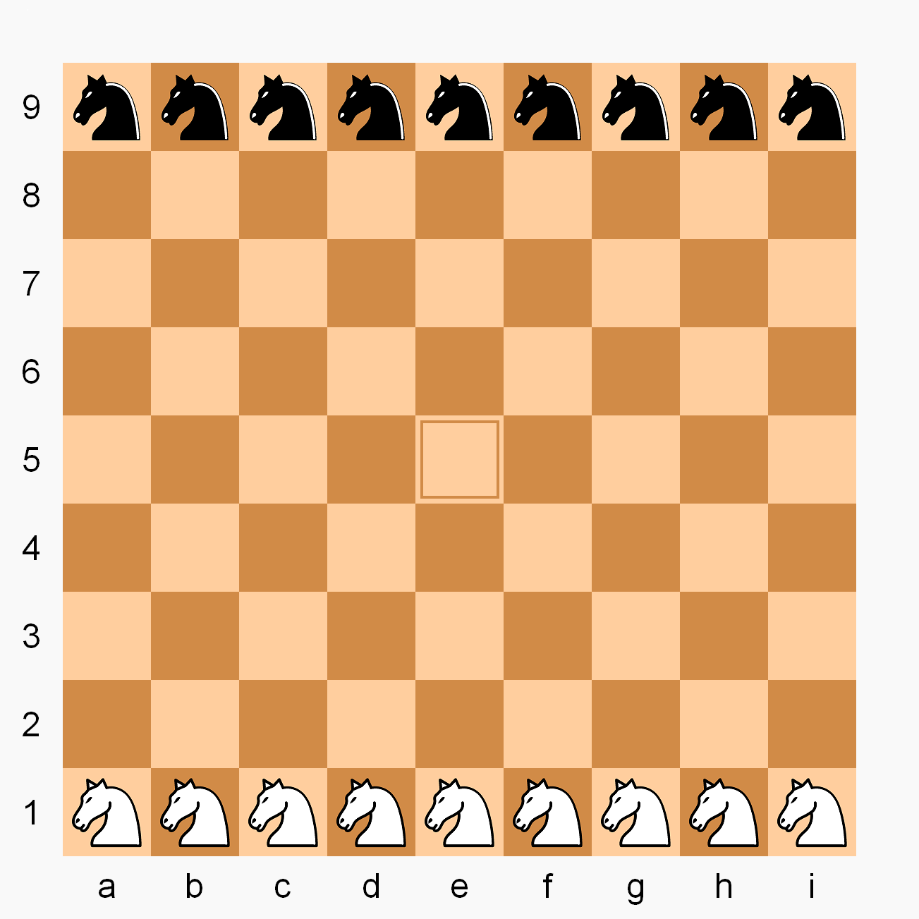 Using the great free-use chess icons fashioned by David Benbennick (User:Dbenbenn). All done in MSPAINT.